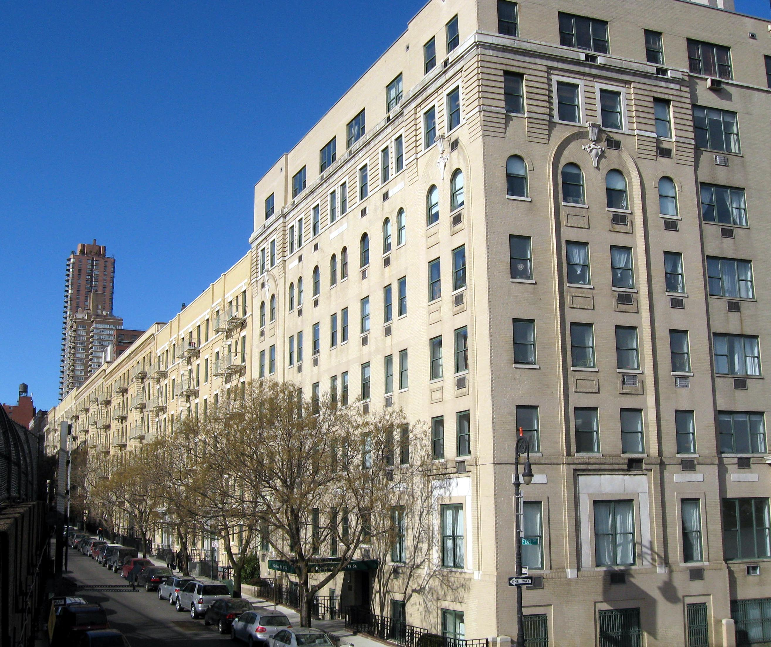 Looking northwest from pedestrian bridge across FDR Drive on a partly cloudy early afternoon at 507-523 East 77th Street, City and Suburban Homes Avenue A Estate.